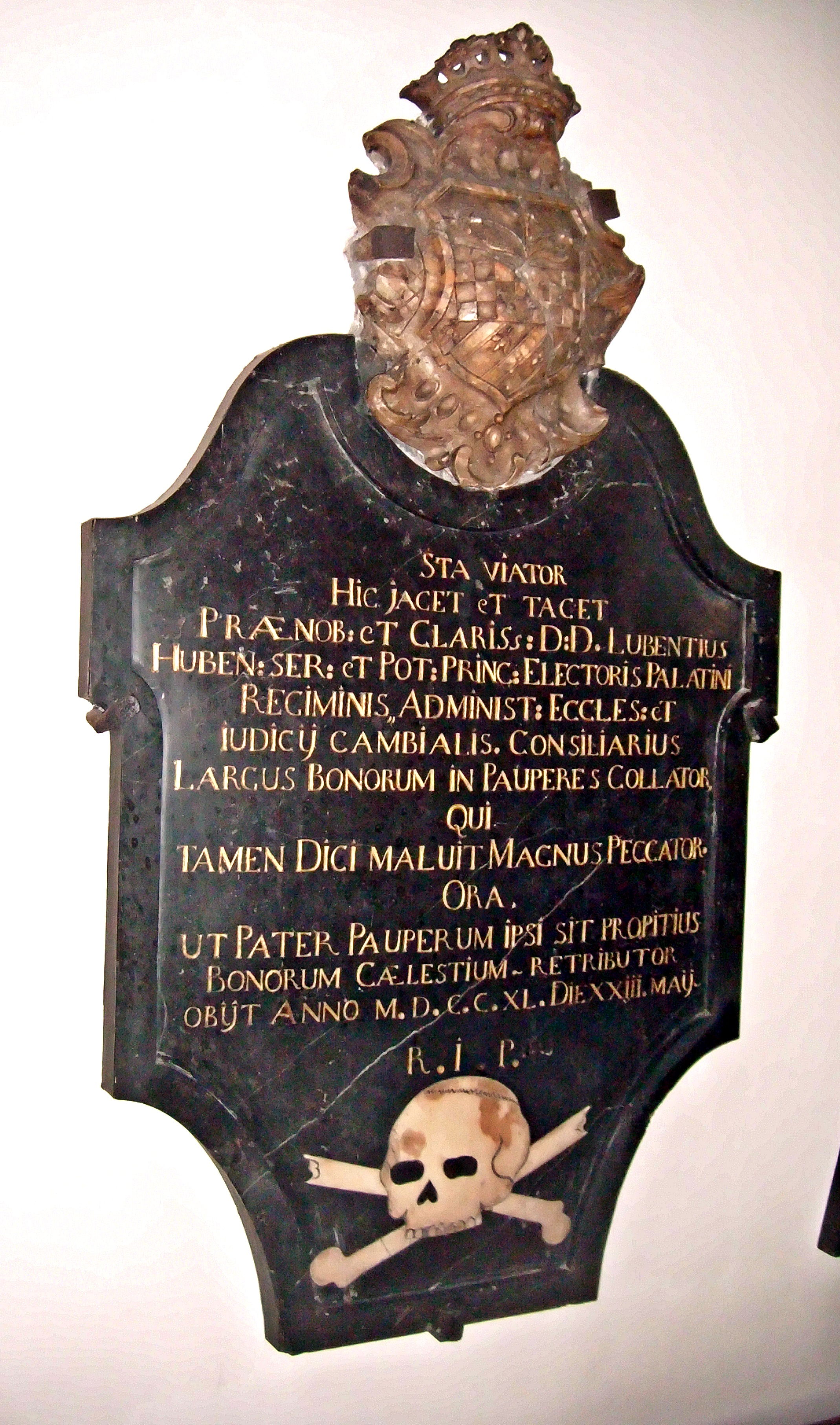 Epitaph Lubentius Huben (+1740), St. Sebastian, Mannheim